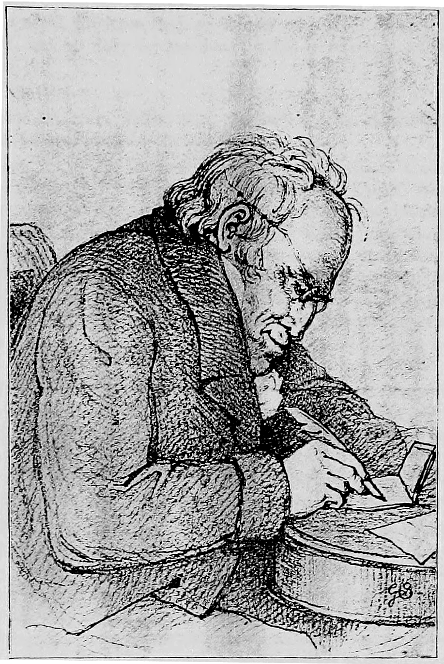 Illustration of the subject in Edith Julia Morley's Blake, Coleridge, Wordsworth, Lamb, etc., being selections from the Remains of Henry Crabb Robinson Manchester, The University press; London, New York [etc.] Longmans, Green & co. 1922 :) The caption is "From an engraving after a pencil sketch from life, September 4th. 1860. at the Athenaeum Club, by G. Scharf, F.S.A.